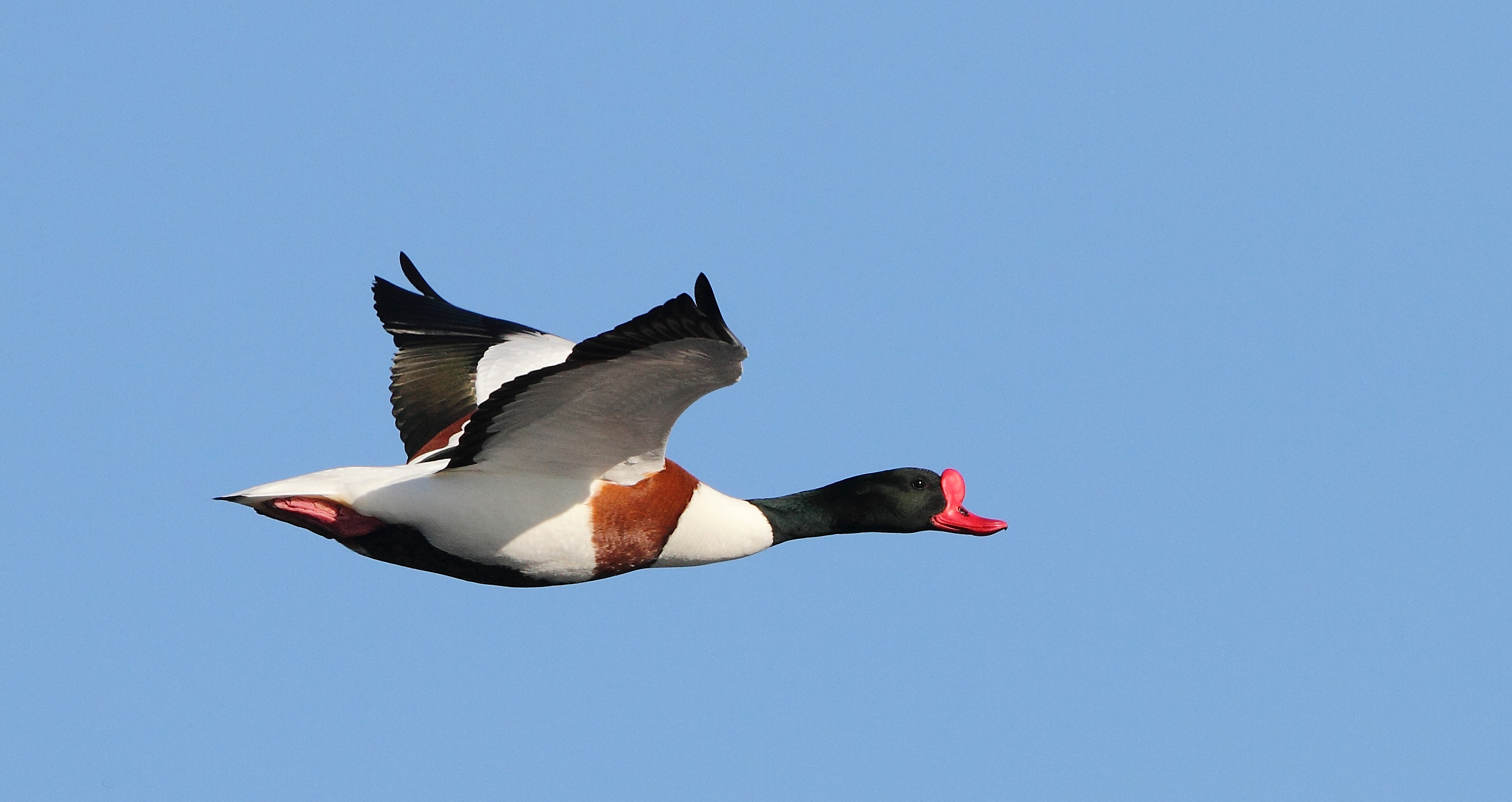 Common Shelduck